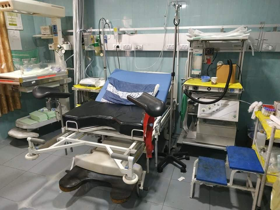 Labor room after delivery in a Palestinian hospital.